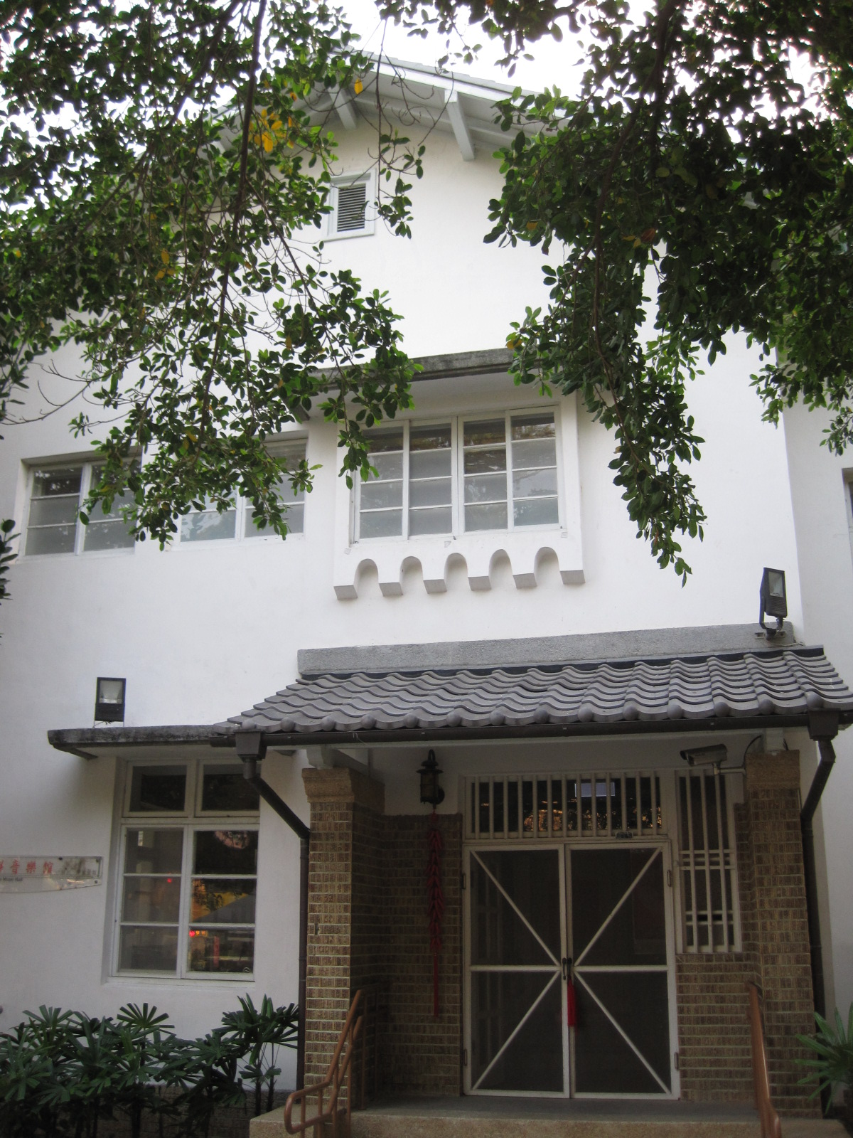 Pingtung County Tribal Music Hall, Former Air Force Hostel